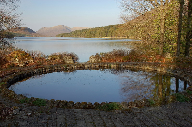 Lily pond and Loch Ossian from Corrour Lodge